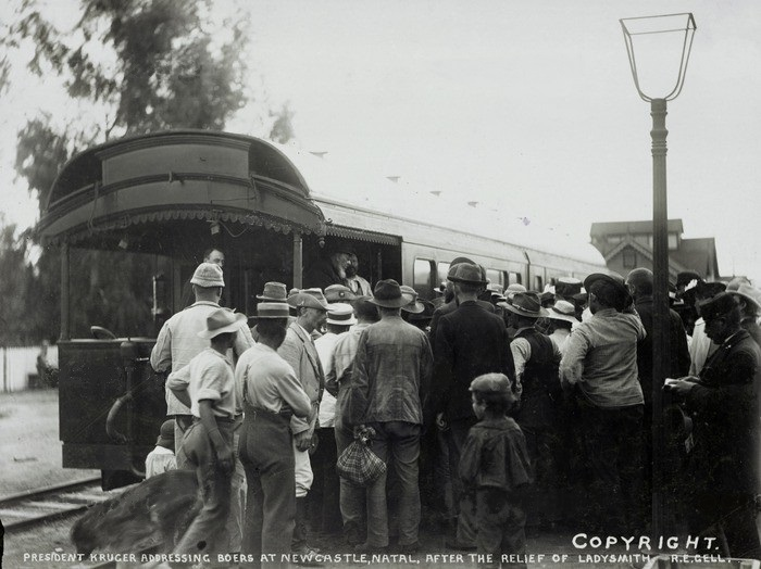 President Kruger addressing boers at Newcastle, Natal, after the relief of Ladysmith R.E.CELL